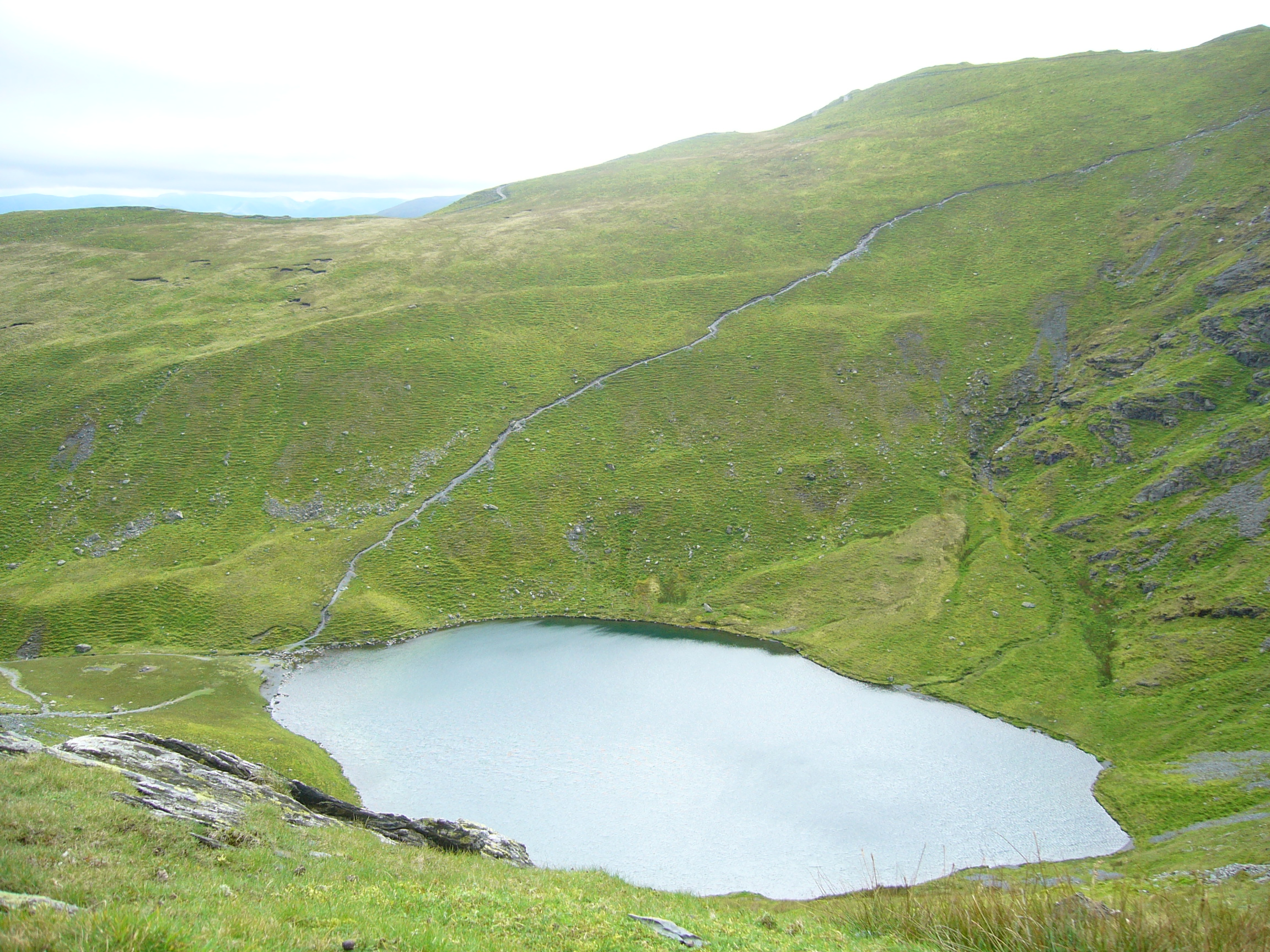 Scales tarn, beneath striding edge on Blencathra, Lake District, UK